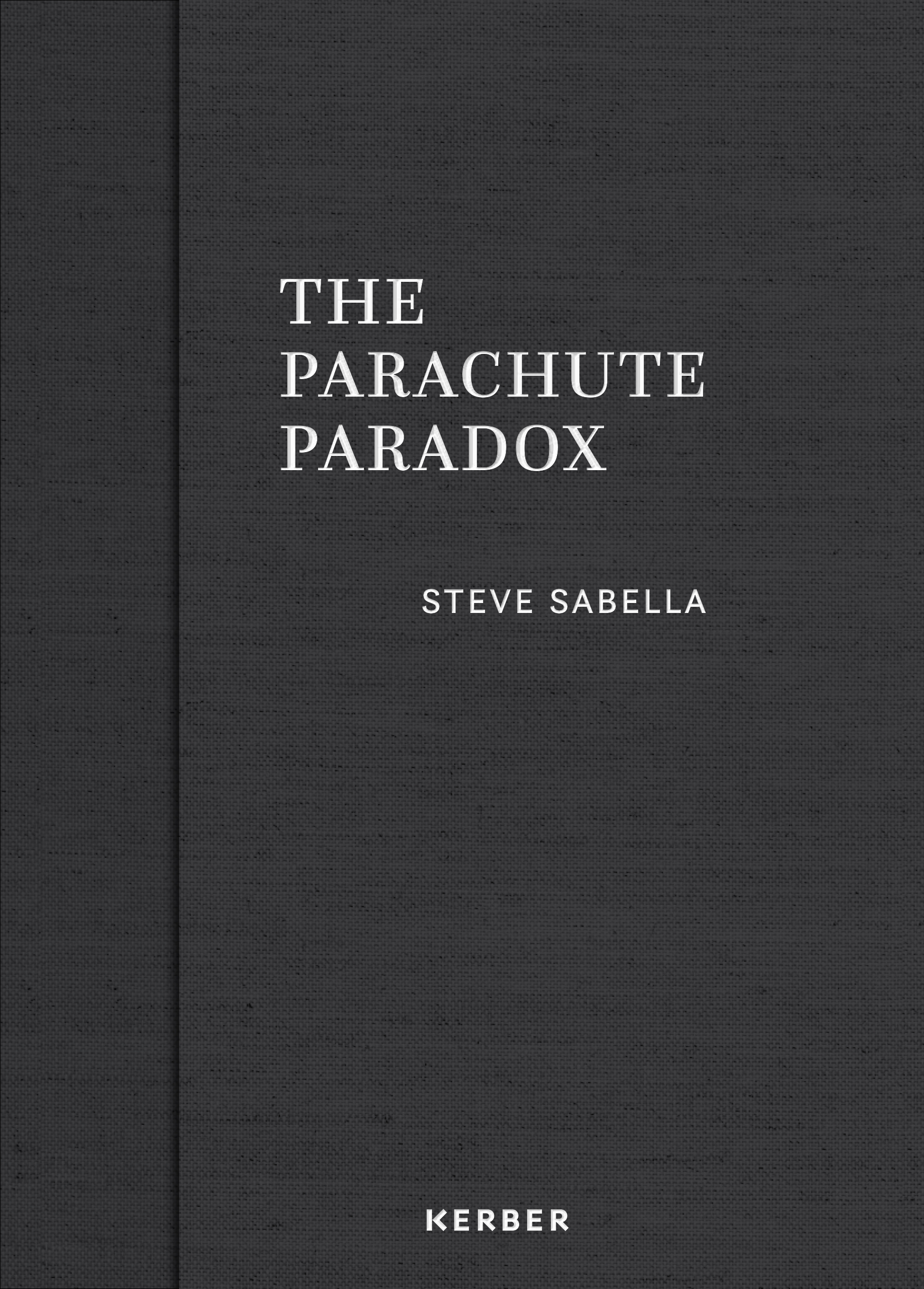 'The Parachute Paradox' by Steve Sabella. Hardcover book in a limited edition of 1250. Published by Kerber Verlag in September 2016. Designed by Verena Gerlach.